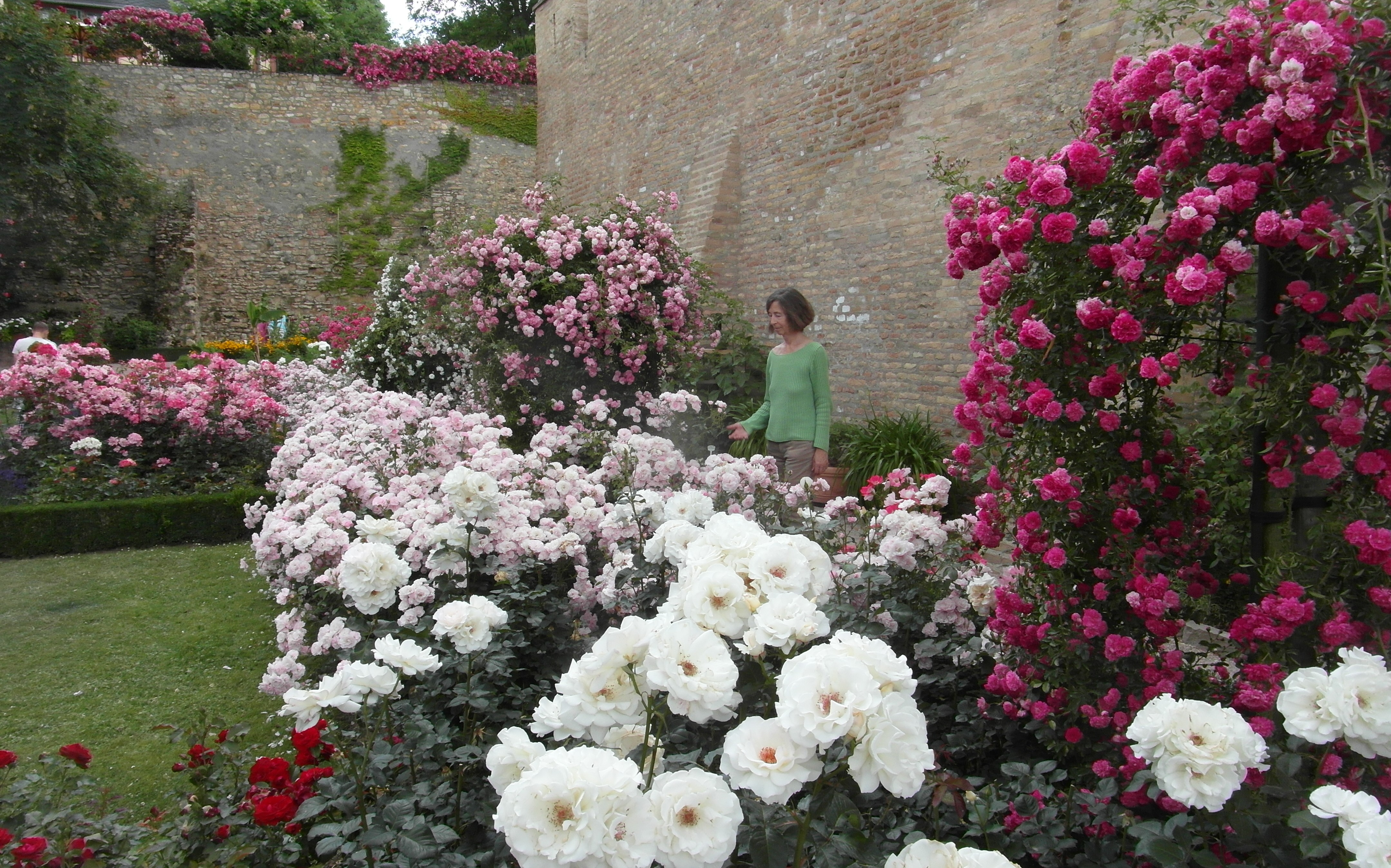 Rosengarten Eltville, a rose garden in the "Rosenstadt" between the protecting walls of the castle